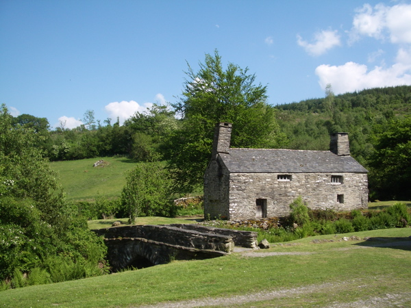 Ty Mawr Birthplace of Bishop William Morgan, first translator of the whole bible into Welsh (1588)